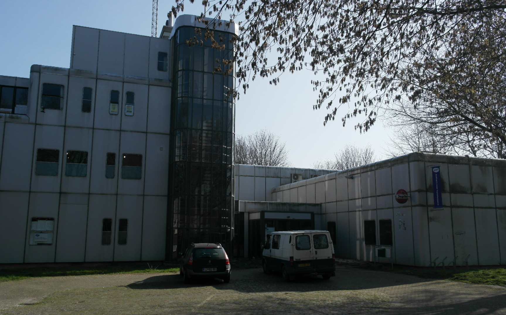 Maastricht, the Netherlands. View from Bankastraat of the former studios of regional radio broadcaster ROZ, later L1. From 2006 till 2012 pop music center Muziekgieterij was based here.